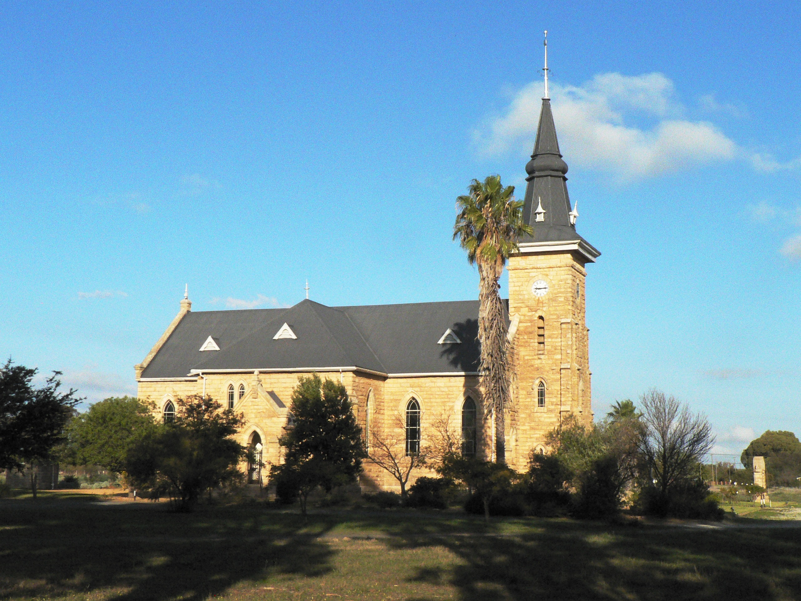 This media shows a South African Protected Site with SAHRA file reference 9/2/017/0006-002.